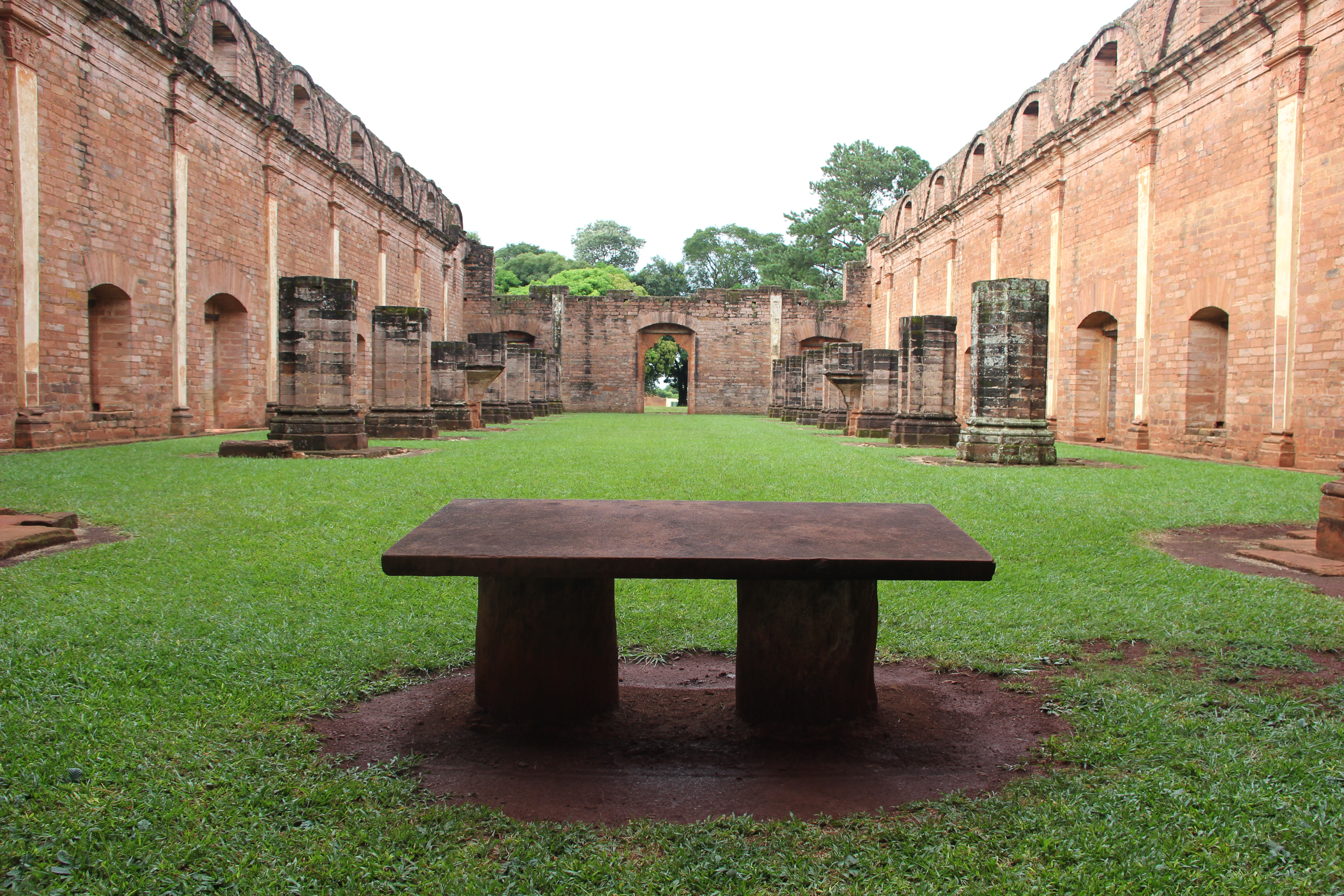 Jesus de Tavarangue - view from the altar. Waited a very long time for all the tourists to get out of the shot, but I got it!